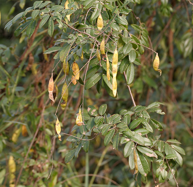 Garudwel, Mota sirili or Hog Creeper Derris scandens syn. Dalbergia scandens in Hyderabad, India.